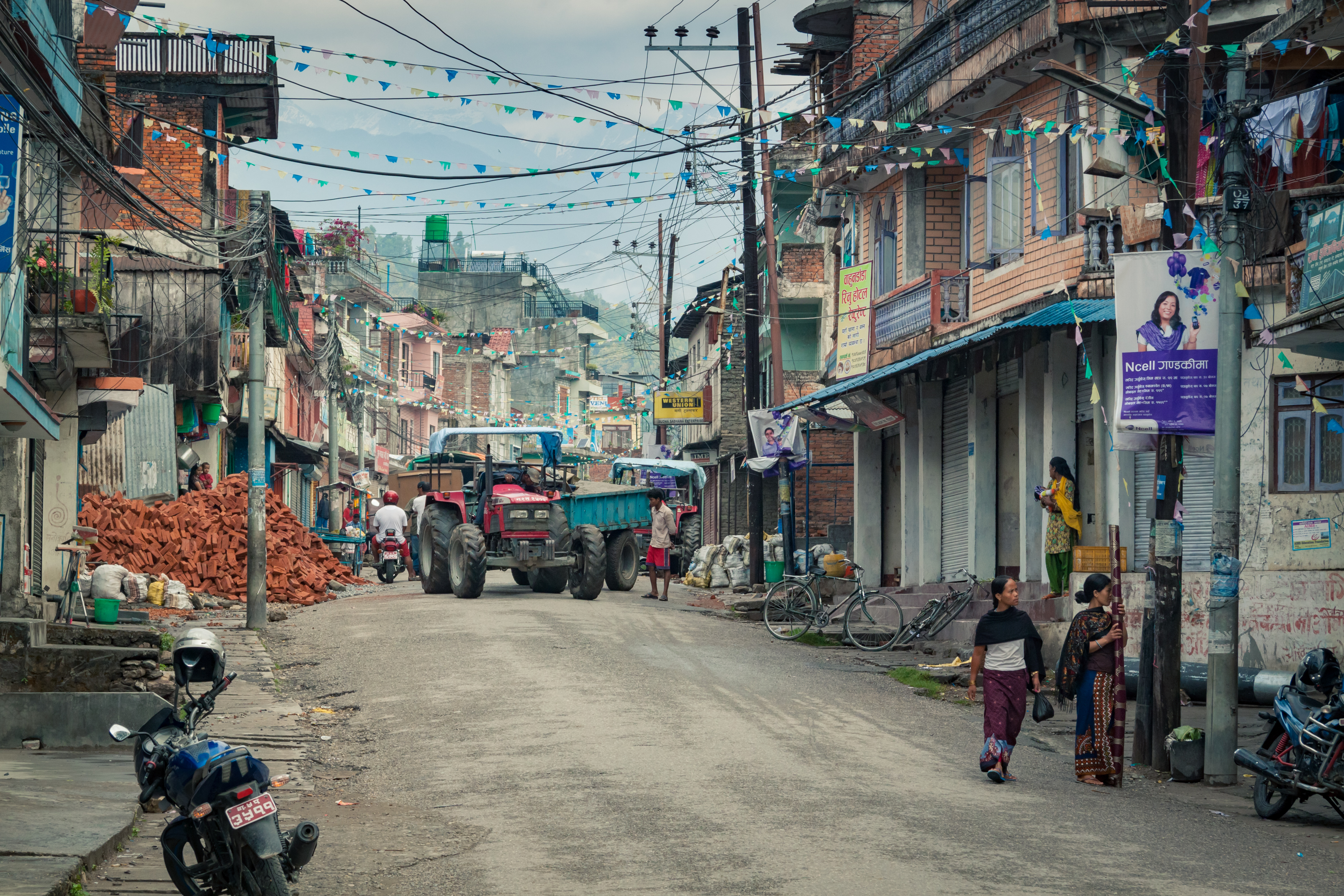 Besi Sahar, Lamjung district, Nepal